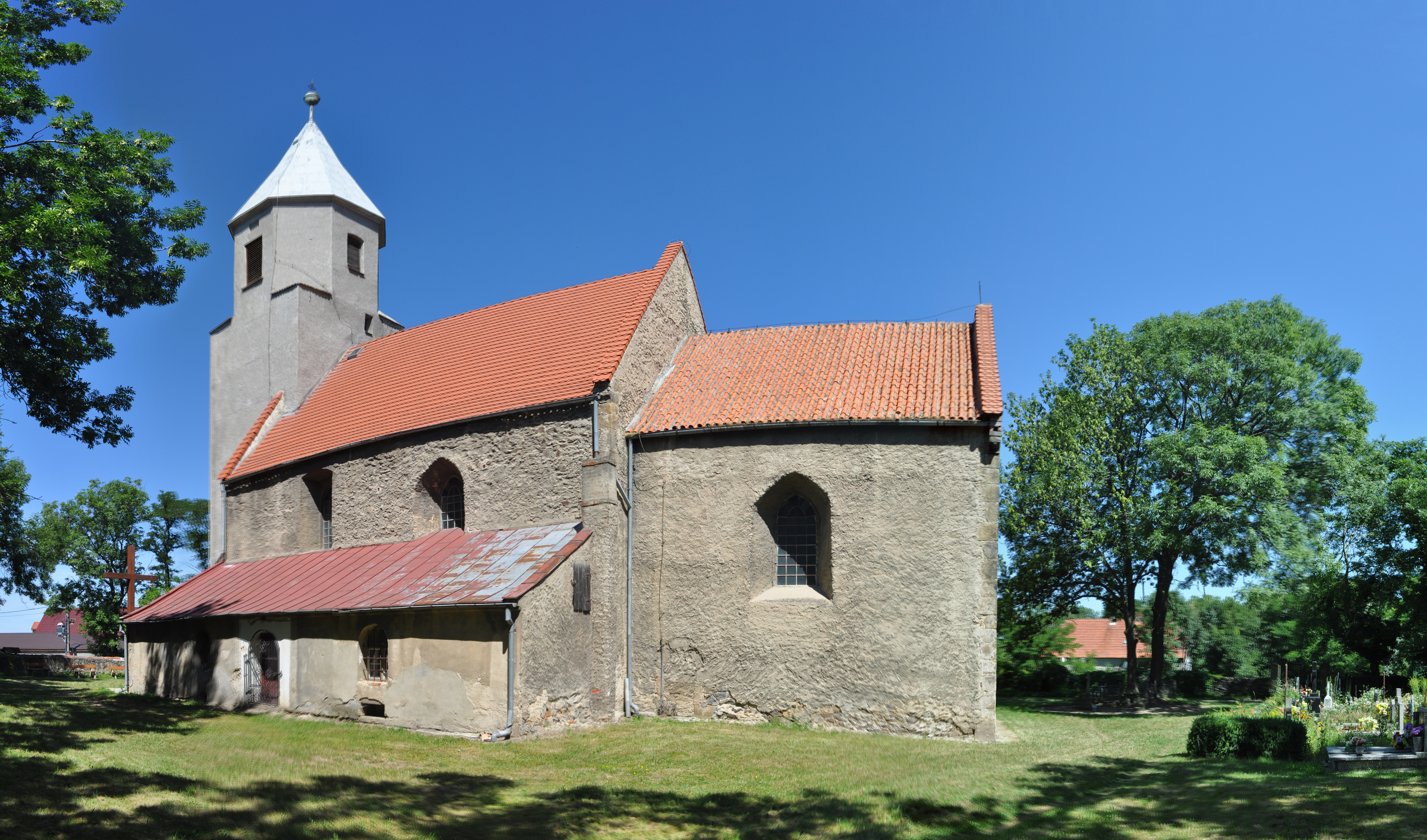 Saints Peter and Paul church in Piotrowice, Poland